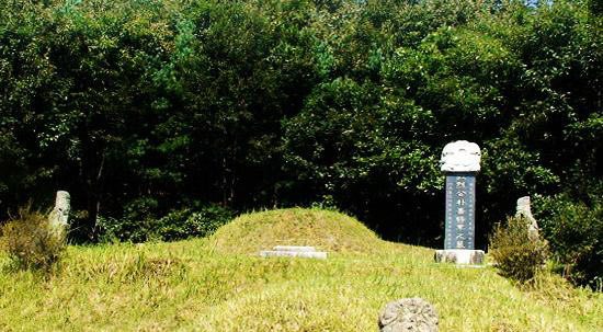 Tomb of General Pakj jin, Korean Joseon Dynusty's General